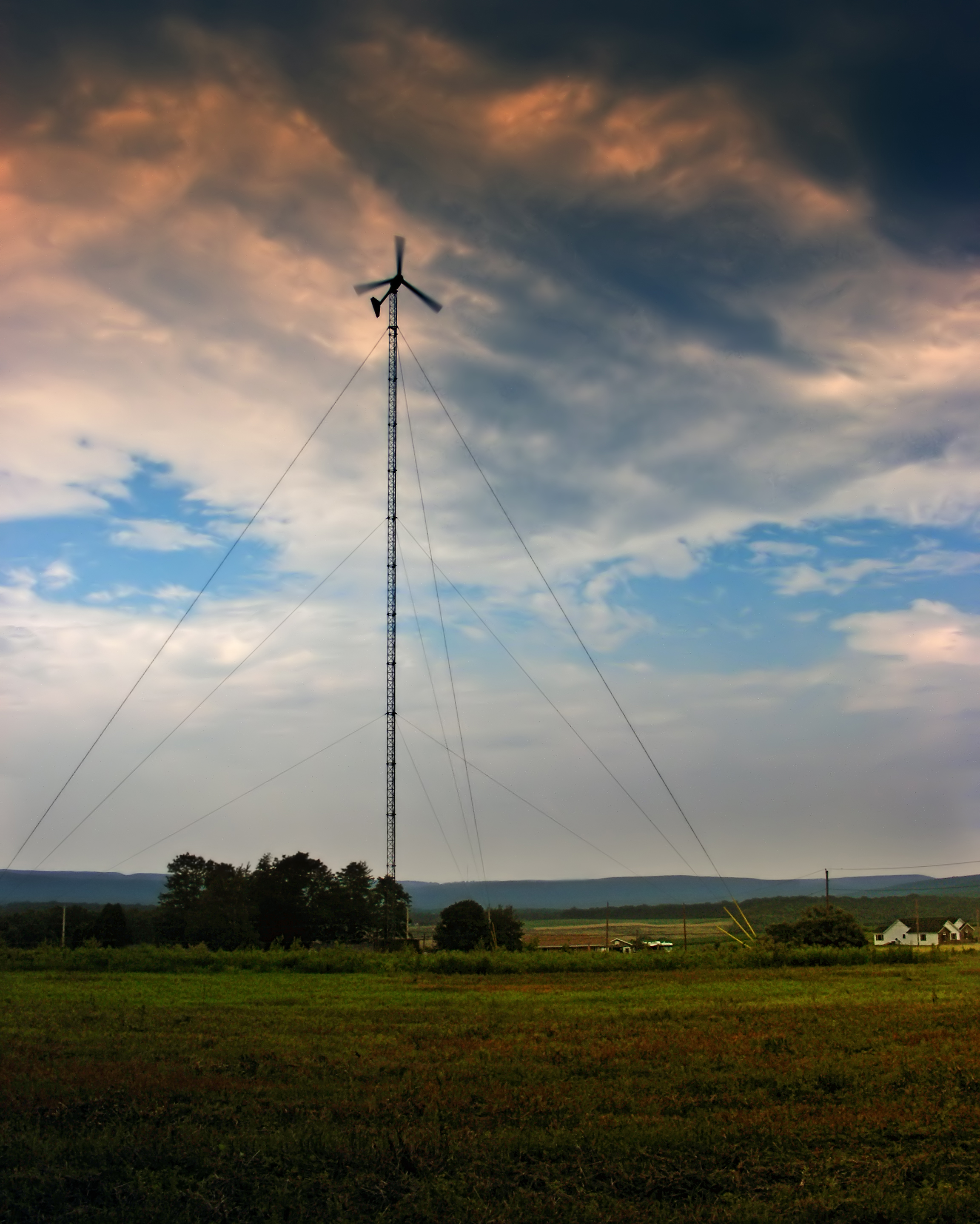 Wind tower, Tuscarora State Park, Schuylkill County in Rush Township.